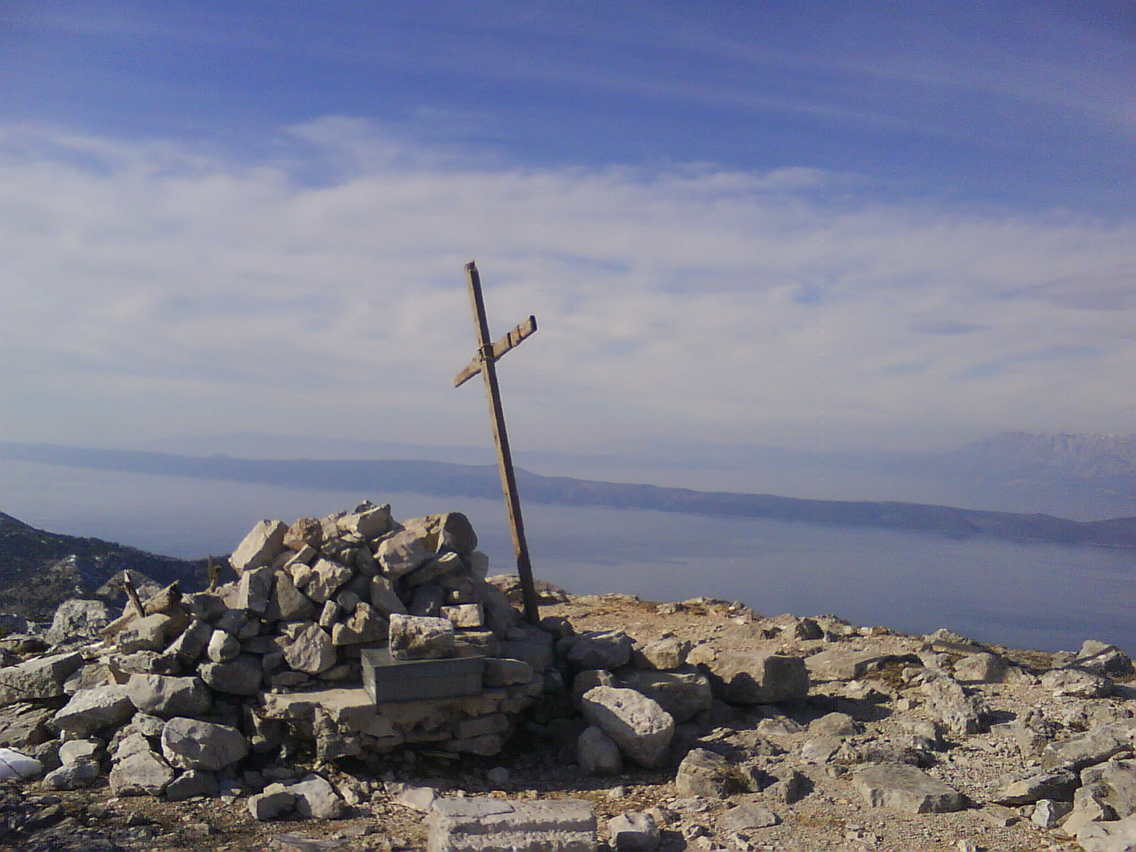 Saint Eliah hill at the Pelješac peninsula